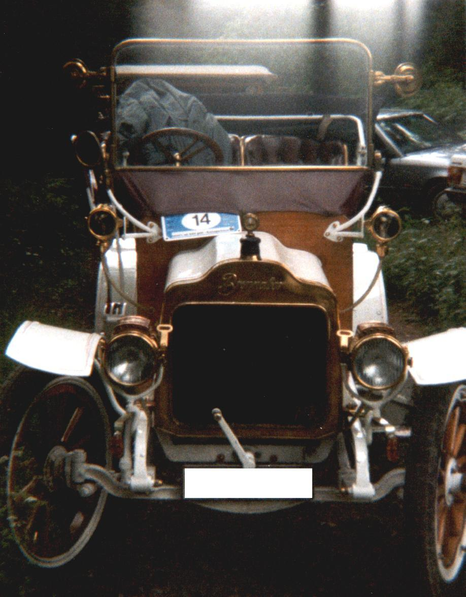 Brennabor 1910